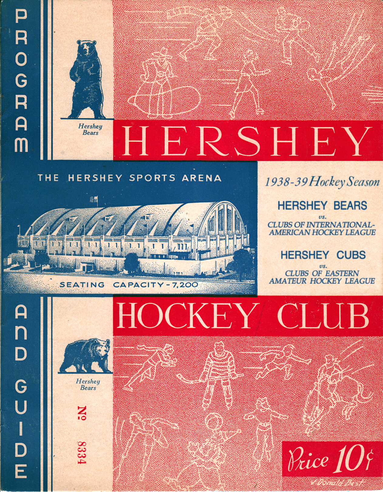 Cover of "Hershey Hockey Club Program and Guide 1938-39 Hockey Season"